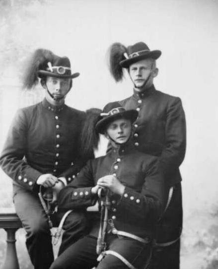 Three soldiers belonging to Norske Jegerkorps, donning the Lieutenant uniforms used between 1903 and 1910. The soldier in the front is known to be Rudolf Falck Ræder.